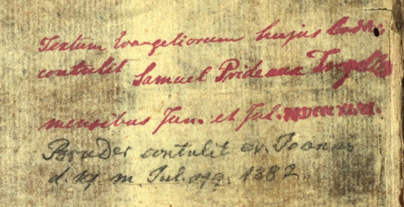 Codex Monacensis, two notes on a paper flyleaf, made by Tregelles in 1846 and Bruder in 1882